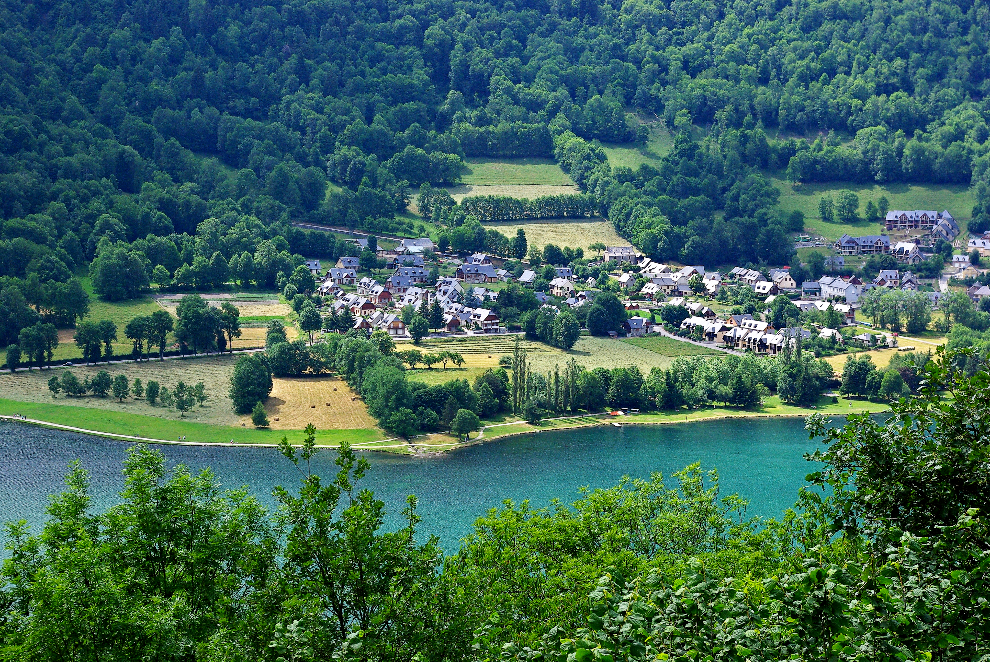 The village of Genos and of the lake og Génos-Loudenvielle, as seen from East, Hautes-Pyrénées, France.